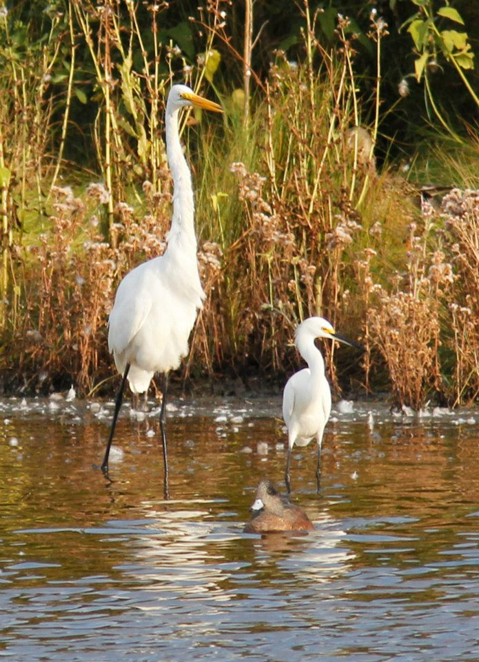 Size comparison of great egret (Ardea alba) and much smaller snowy egret (Egretta thula). Taken in April 2013 at Cape May in southern New Jersey.